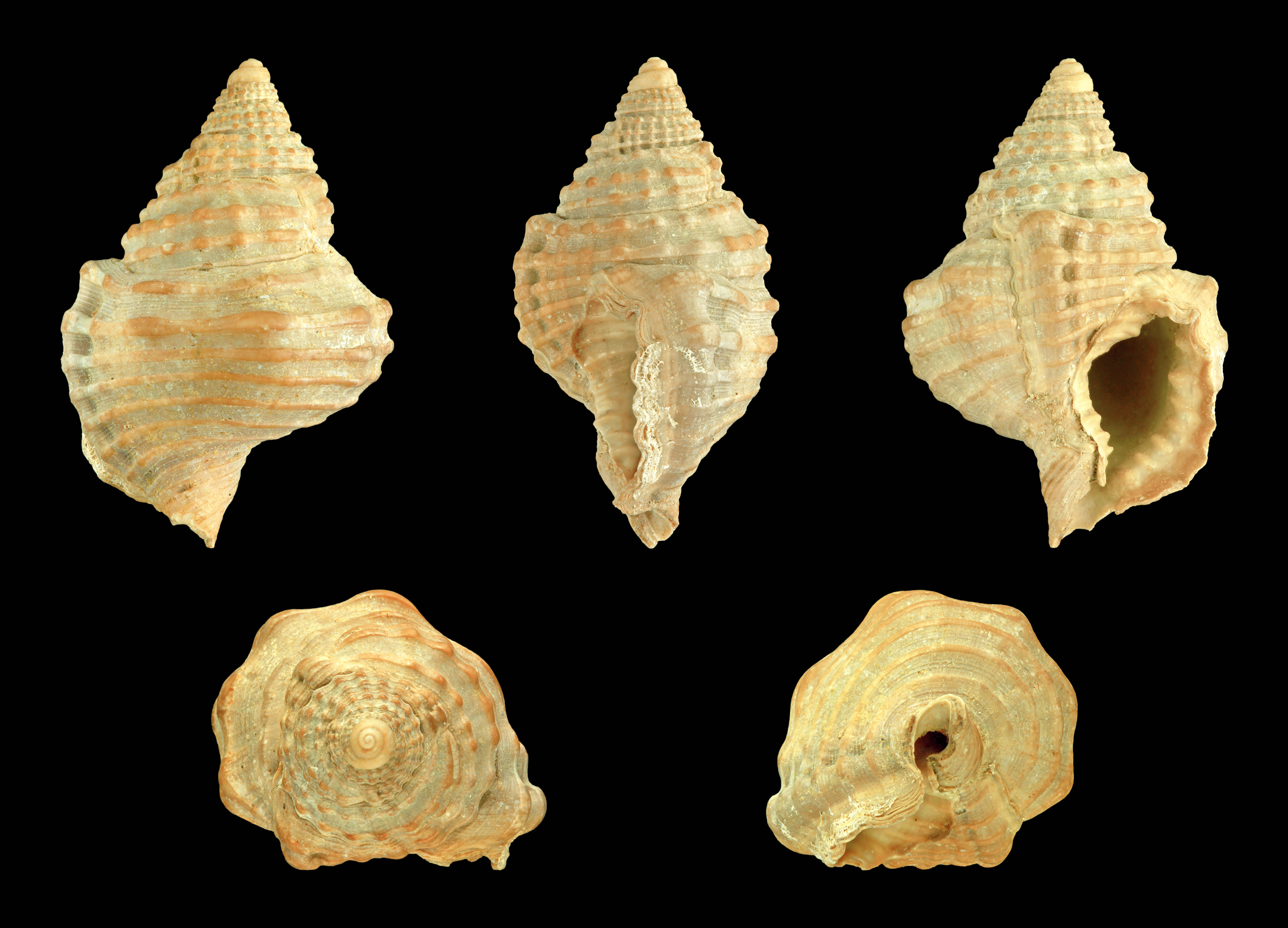 Length 1.7 cm; Eocene, Claiborne Stage, Cook Mountain Formation (= Type Formation) ; Little Brazos River, Brazos County, Texas, USA. Dorsal, lateral (right side), ventral, back, and front view.